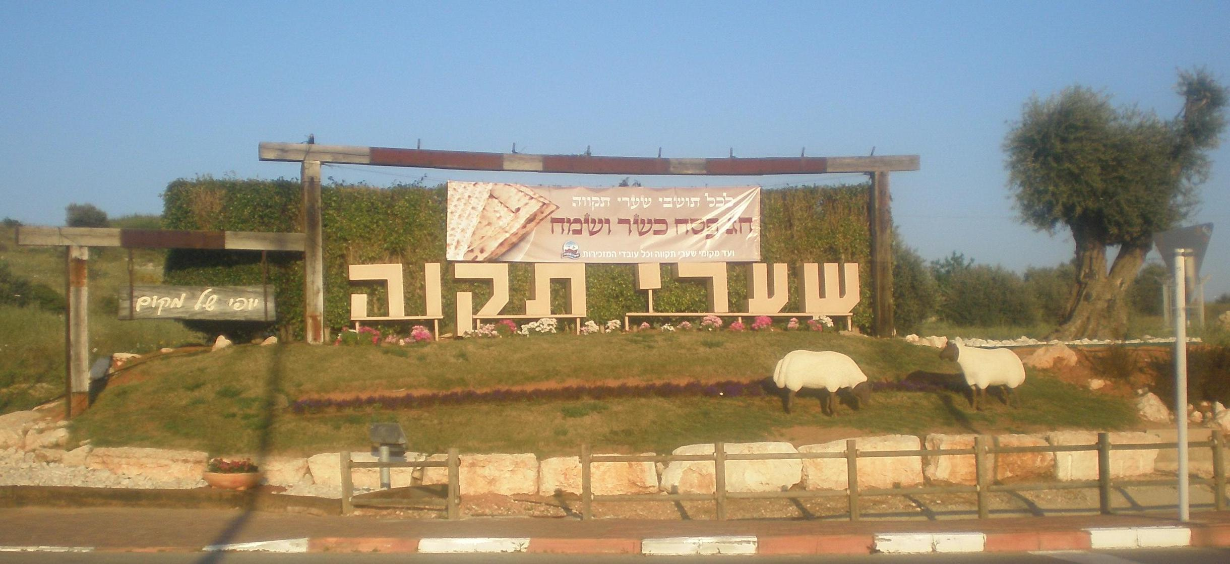 Enterance to Shaarey Tikva, Israel